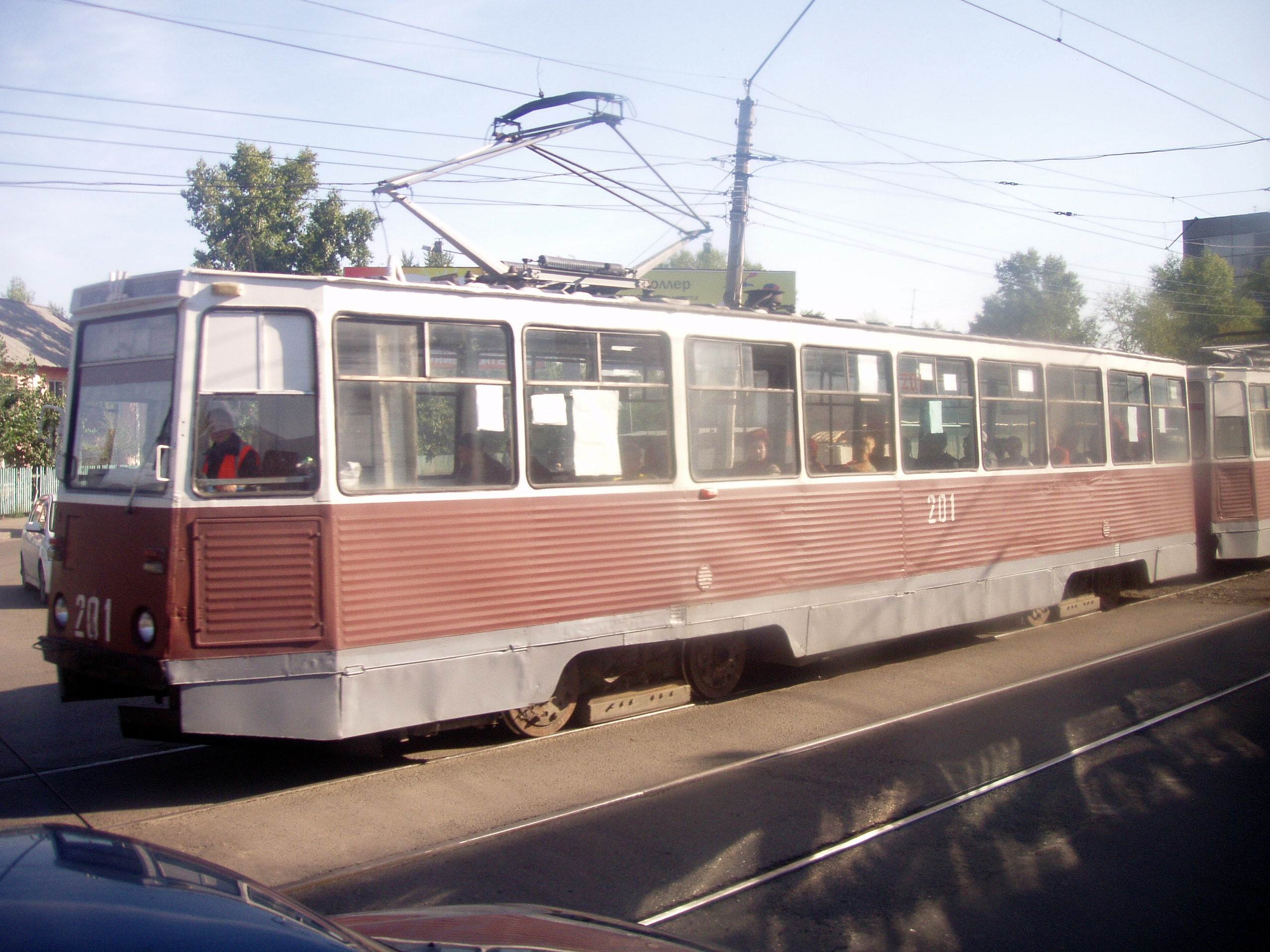 Tram in Biisk.